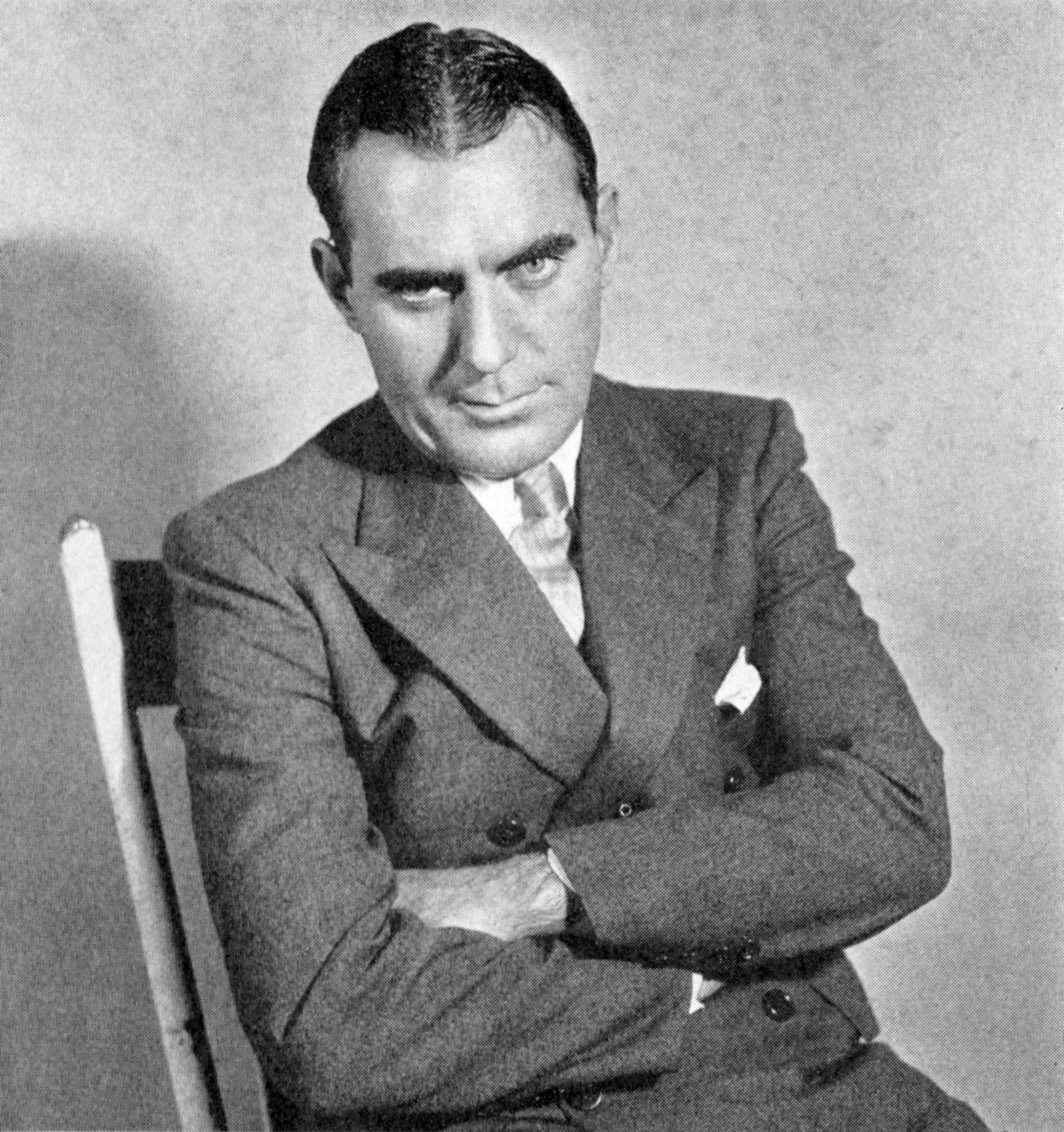 Photograph of actor Pat O'Brien, singling out his performance as Curly in the Broadway comedy The Up and Up (1930} Caption reads as follows: Season's Distinguished Performances Mr. Pat O'Brien, who made memorable that rather ordinary little racketeering comedy, "The Up and Up," with his surprising performance of Curly, a master bookmaker